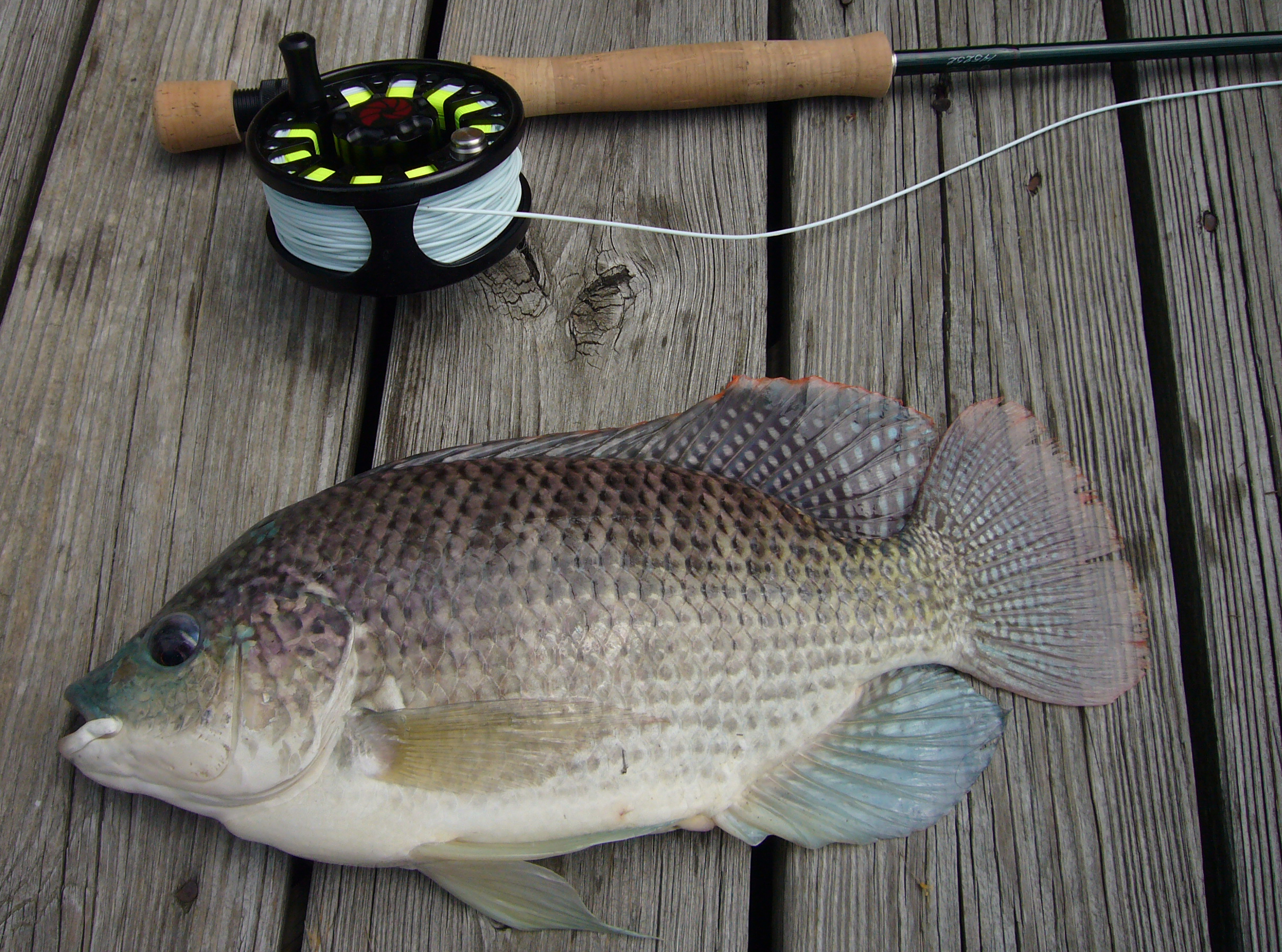 Mozambique Tilapia (Tilapia Mozambiccus), caught at Hyco Reservoir, North Carolina, United States.